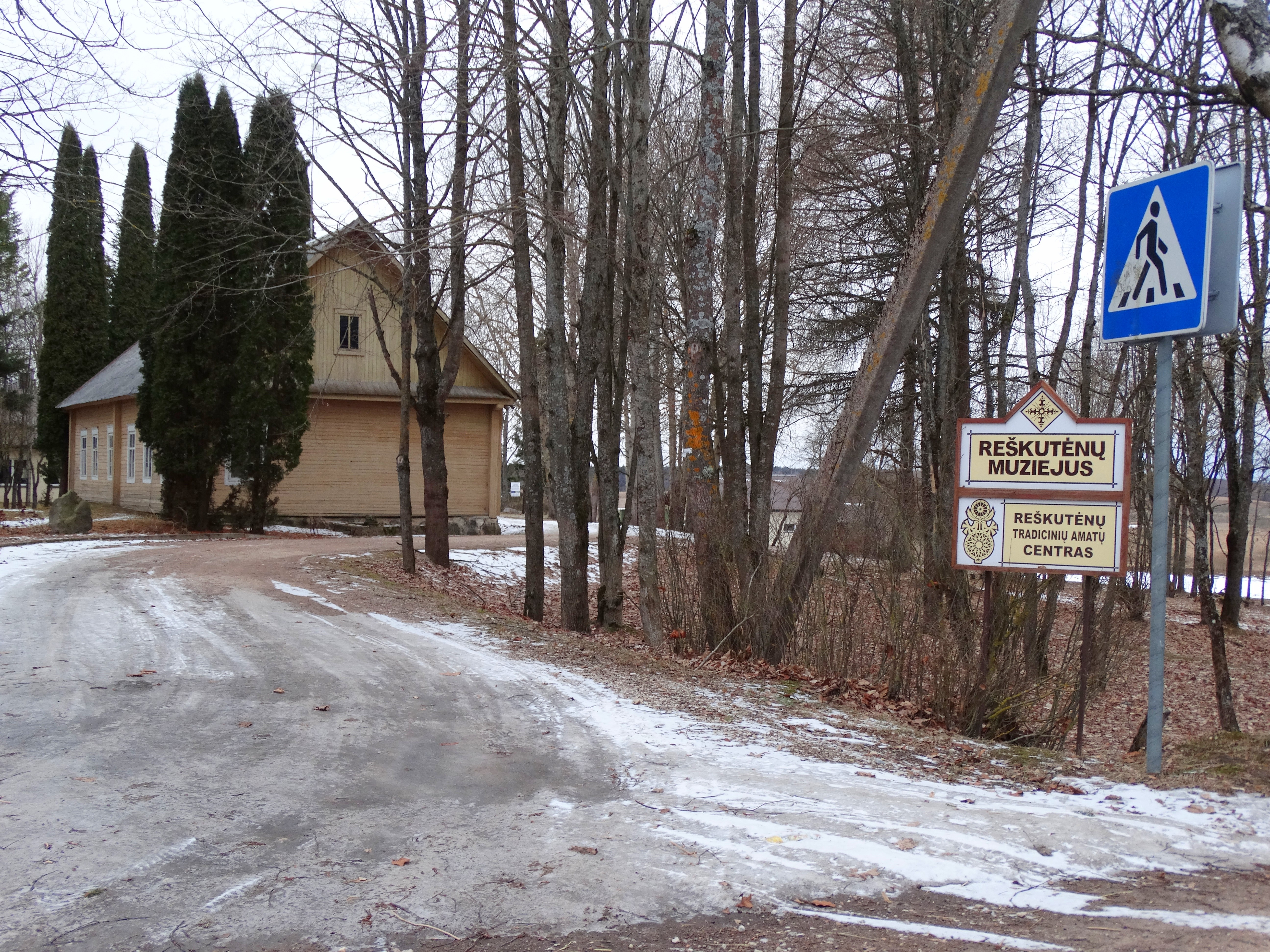 Museum, Reškutėnai, Švenčionys district, Lithuania